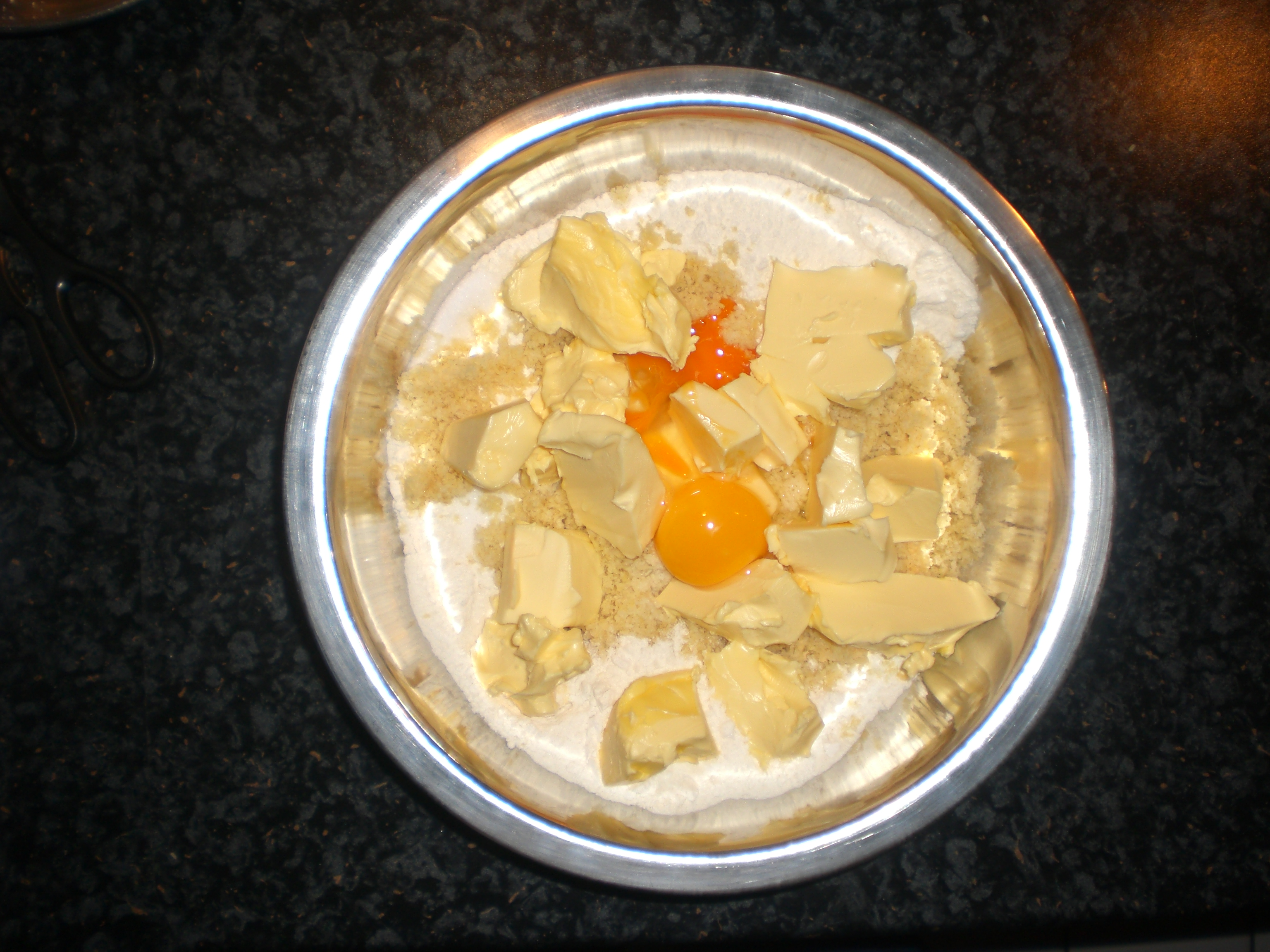 flour, sugar, almond, butter, eggs for biscuit dough